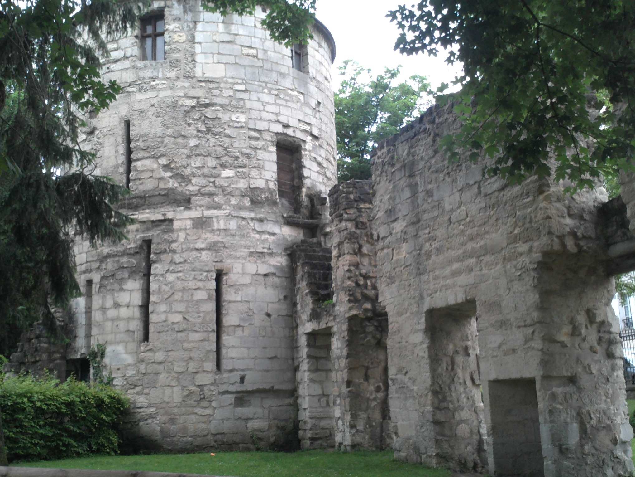 Tour Rabelais of the Abbaye In Saint Maur des Fossés, France, north-east side, built ca. 1358. Picture taken on 16 June 2012.